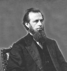 John Roberts Reading, US Representative from Pennsylvania